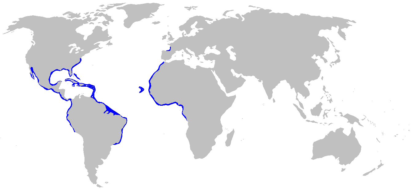 Distribution map for Ginglymostoma cirratum